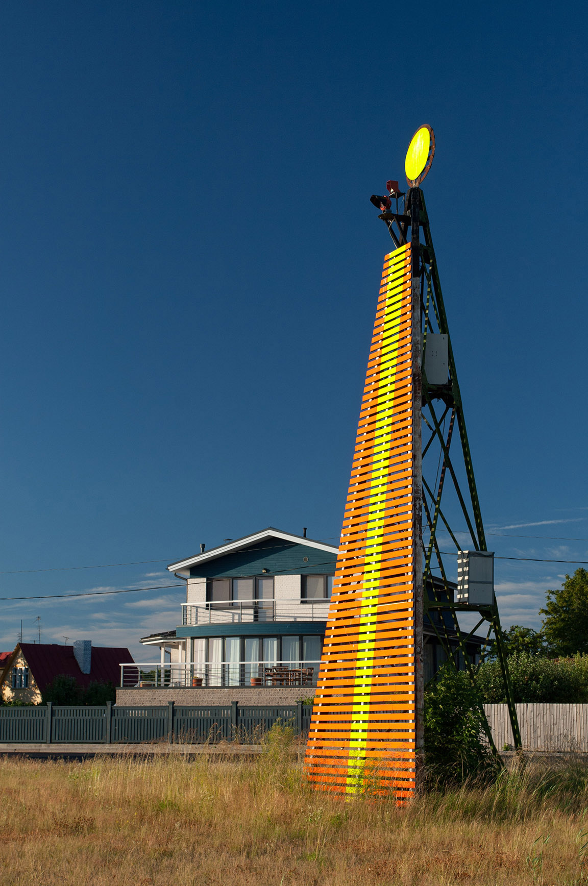 Kajakarahu rear light beacon